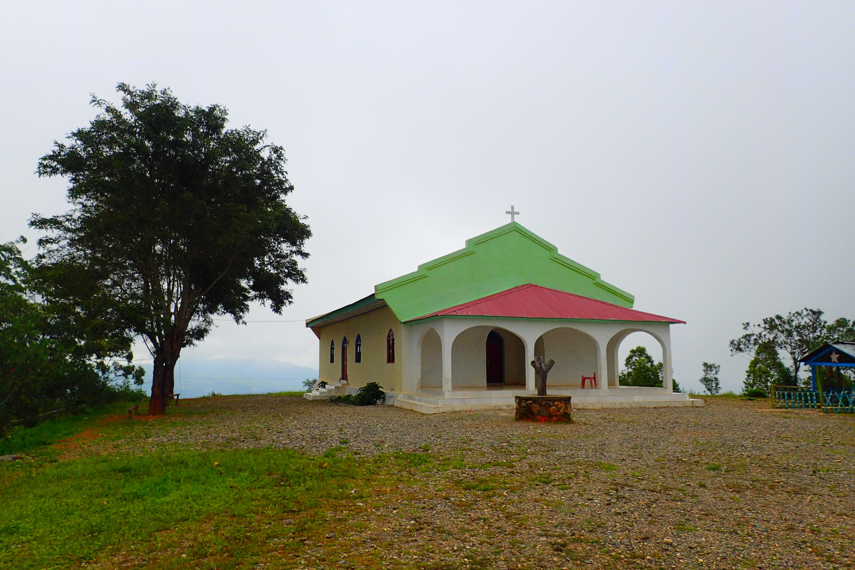 Railaco Craic New Church